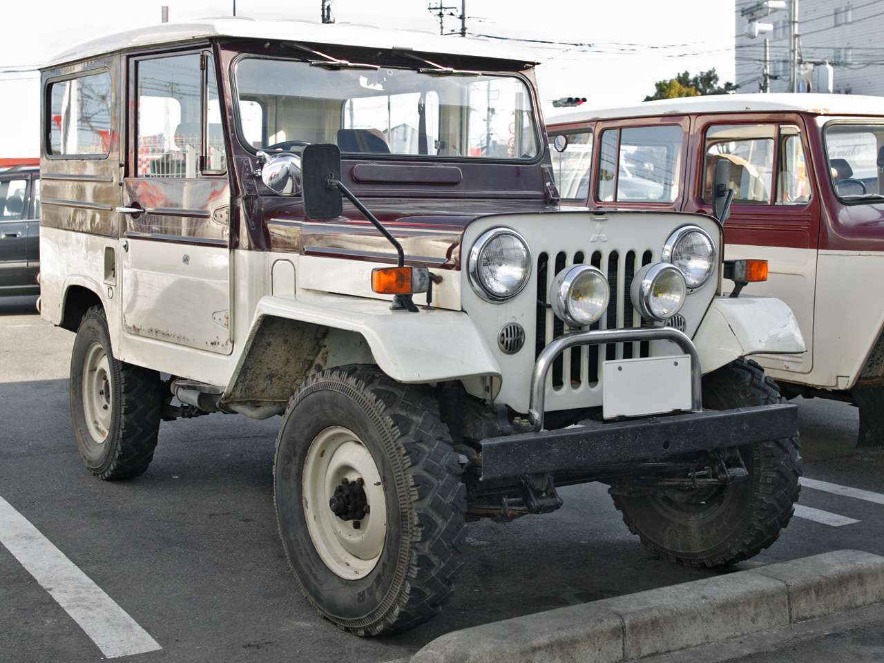 Image:Mitsubishi Jeep J-24H